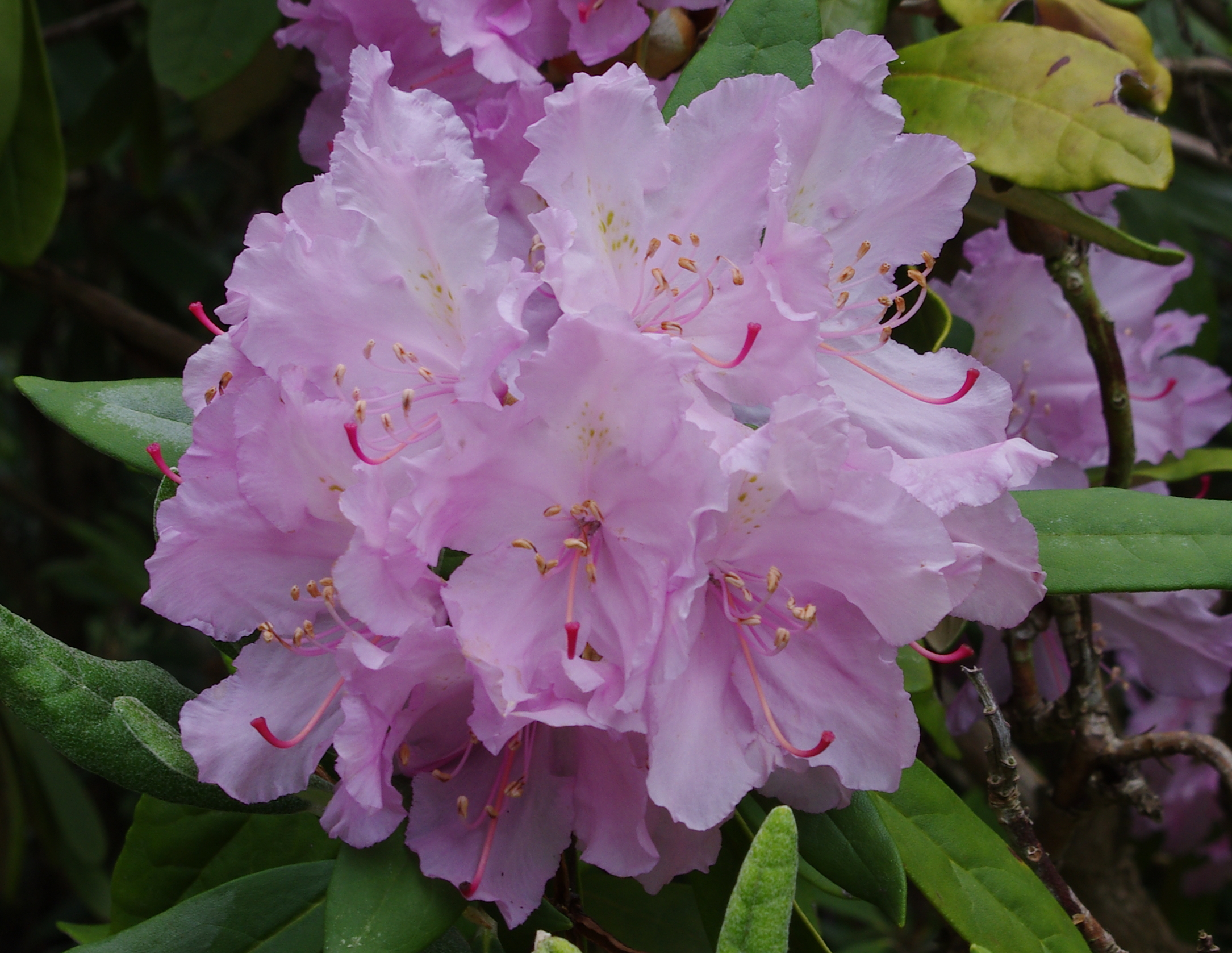 Rhododendron smirnowii at the ÖBG Bayreuth